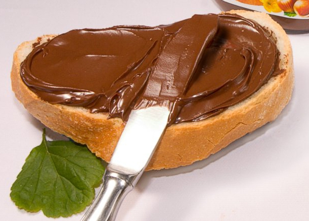 Nutella